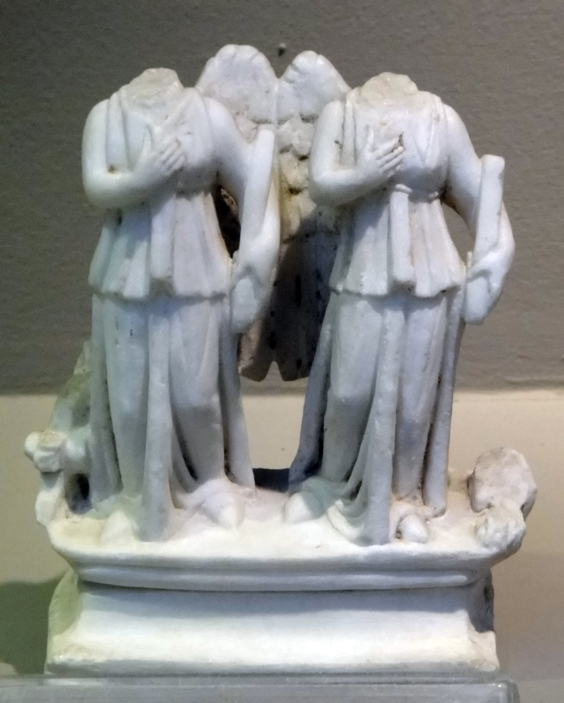 Double Nemesis from Ephesus.